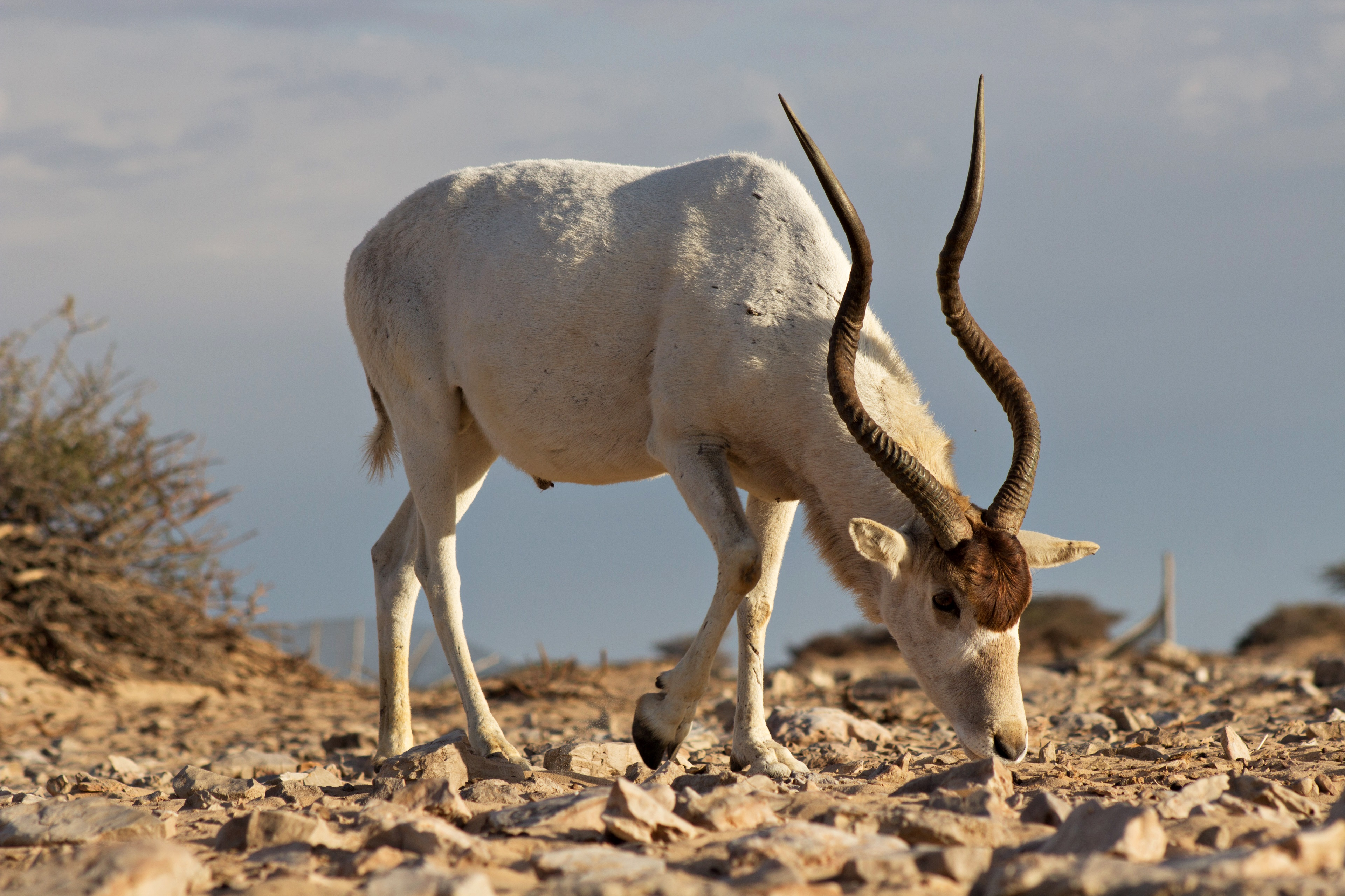 A big male Addax (Addax nasomaculatus) showing as the power of his horns. This picture has been taken in the station of aclimation Safia near the Morocco-Mauritania Borders, south of Dakhla.